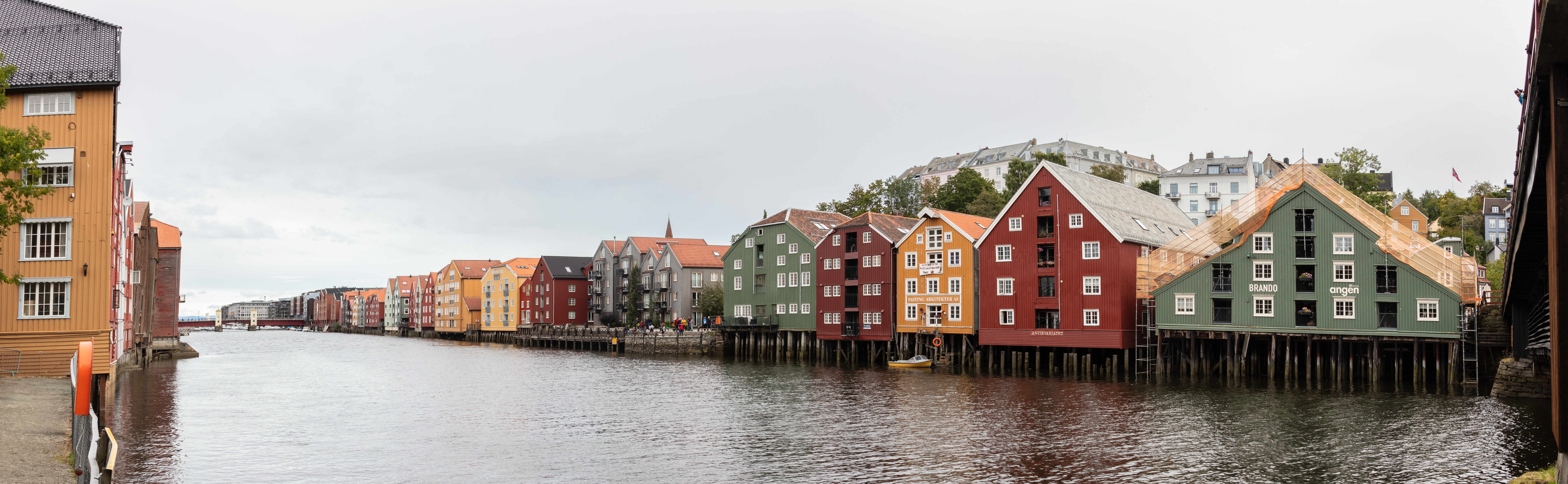 Bakklandet, Trondheim, Norway